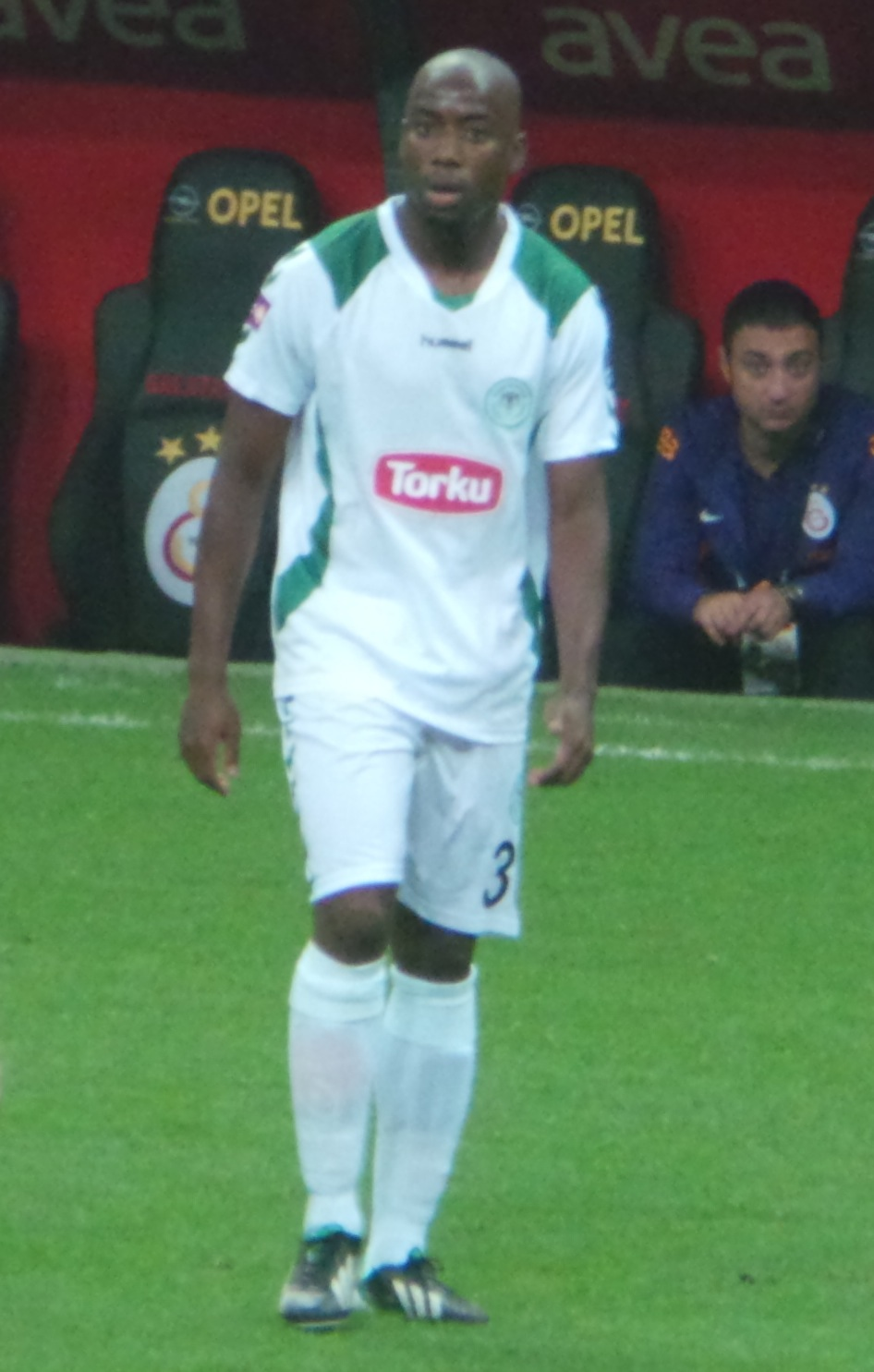 Djalma Campos